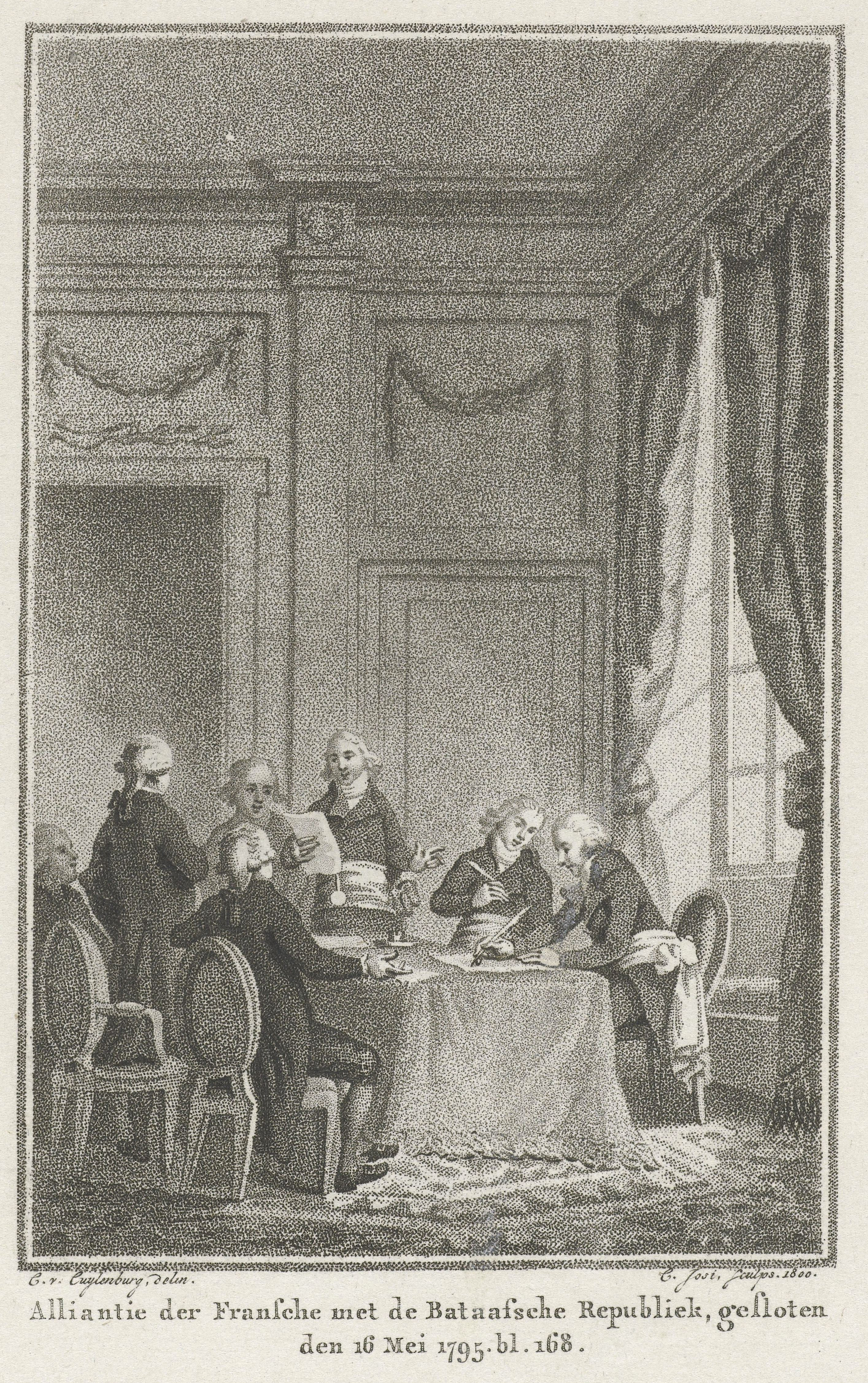 Conclusion of alliance between France and the Batavian Republic, 1795, Christiaan Josi, after Cornelis van Cuylenburgh (II), 1800